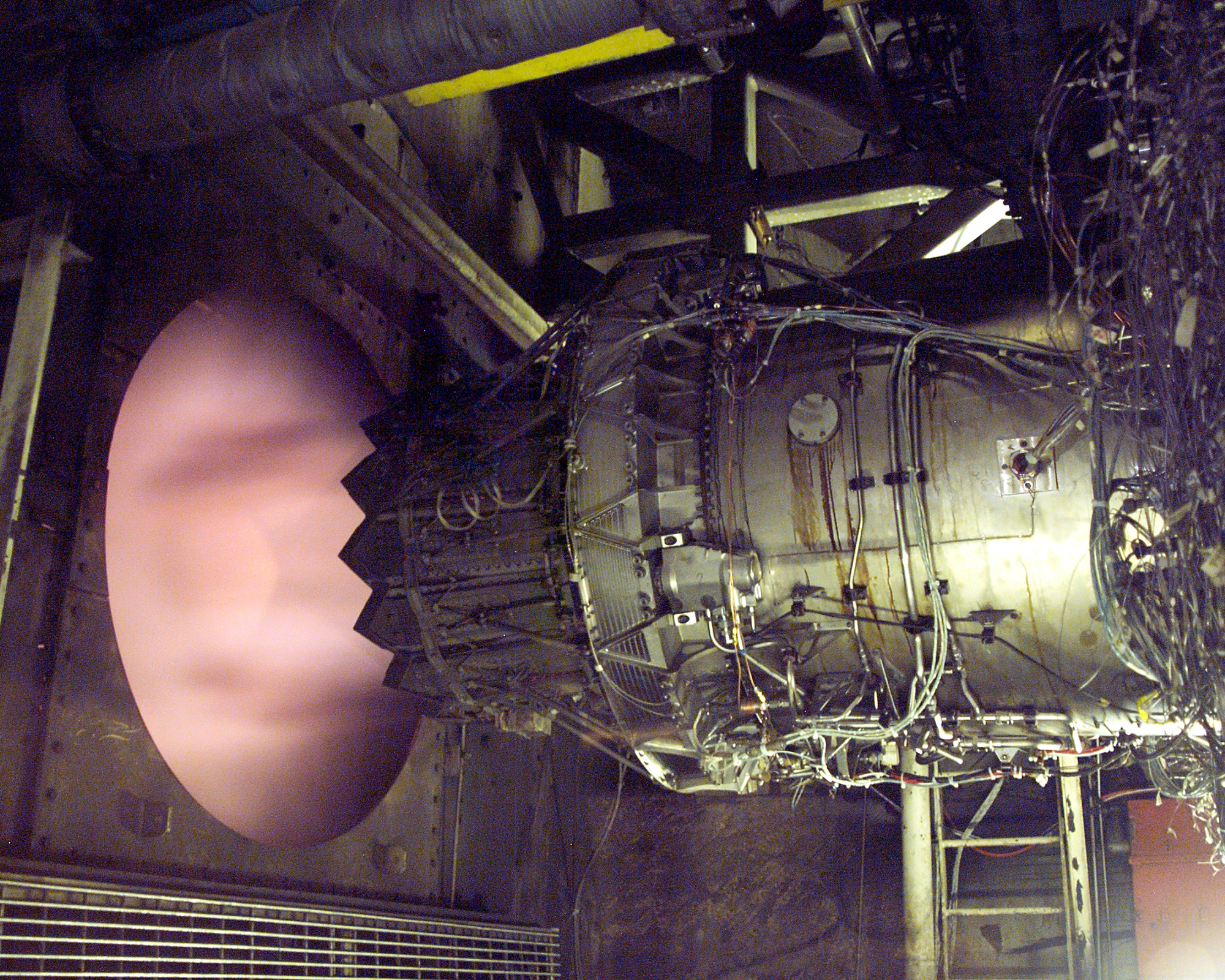 A Pratt and Whitney F135 engine undergoes altitude testing at the Arnold Engineering Development Center. It is one of two engines slated to power the F-35 Lightning II Joint Strike Fighter.